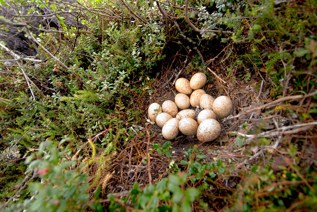 Nest of the Spruce Grouse